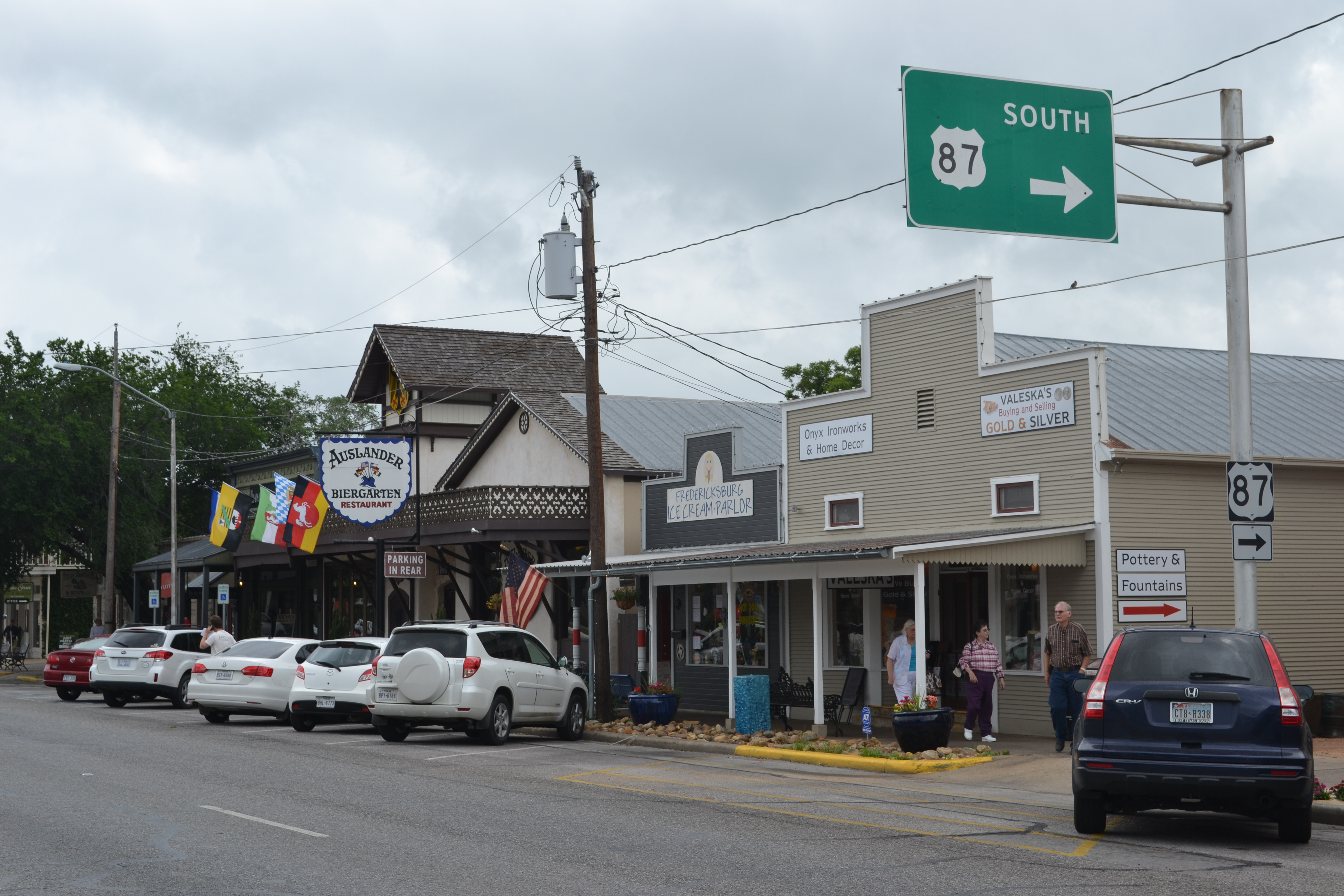 Main Street at Fredericksburg, a bier garten is along the major street.